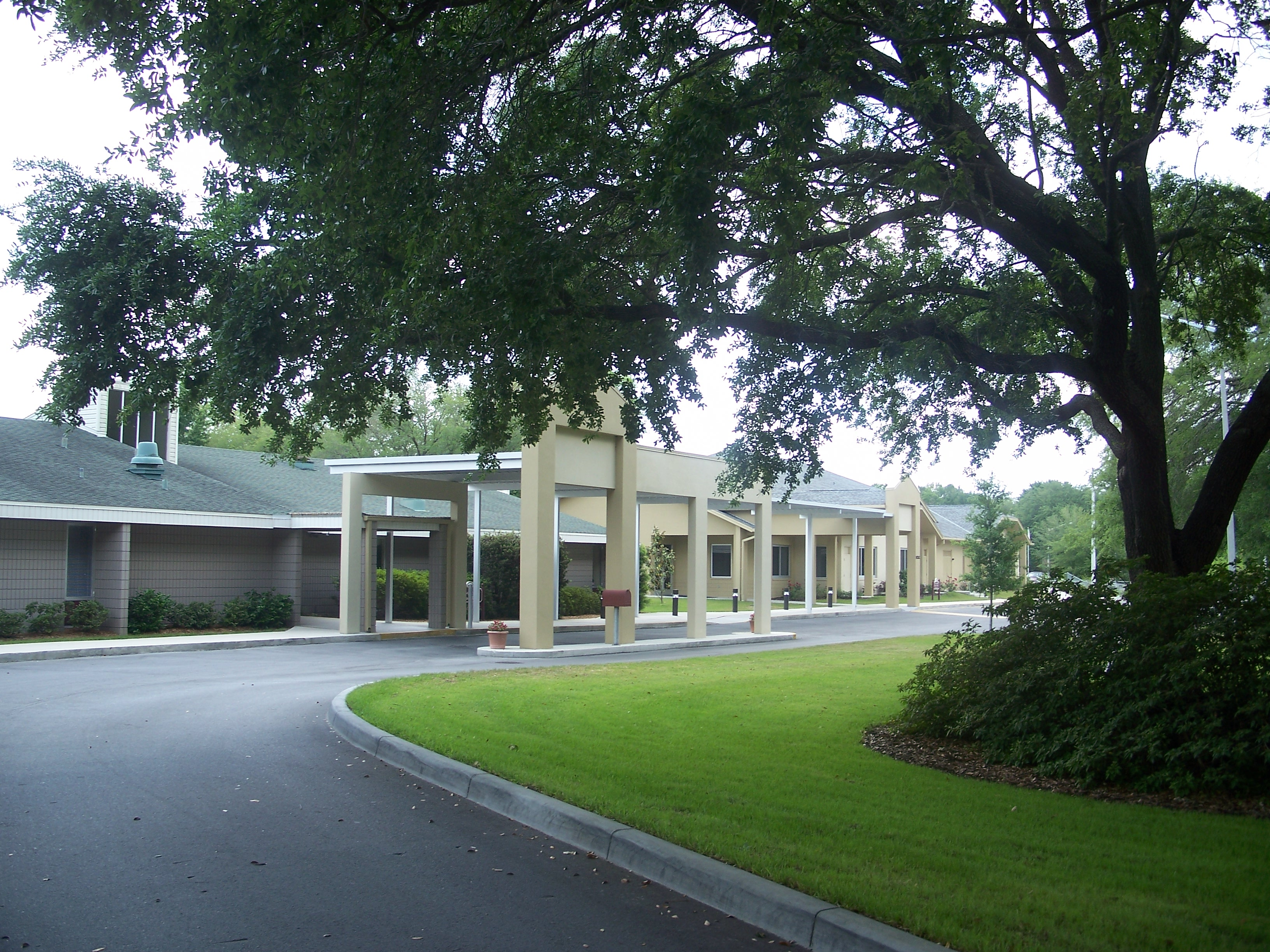 Gainesville, Florida: Oak Hall School: Lower School